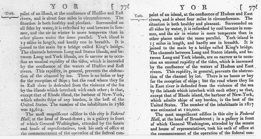 Comparing the 5th edition, left, to the 6th. The only change was the typeface and the updated population of New York City.